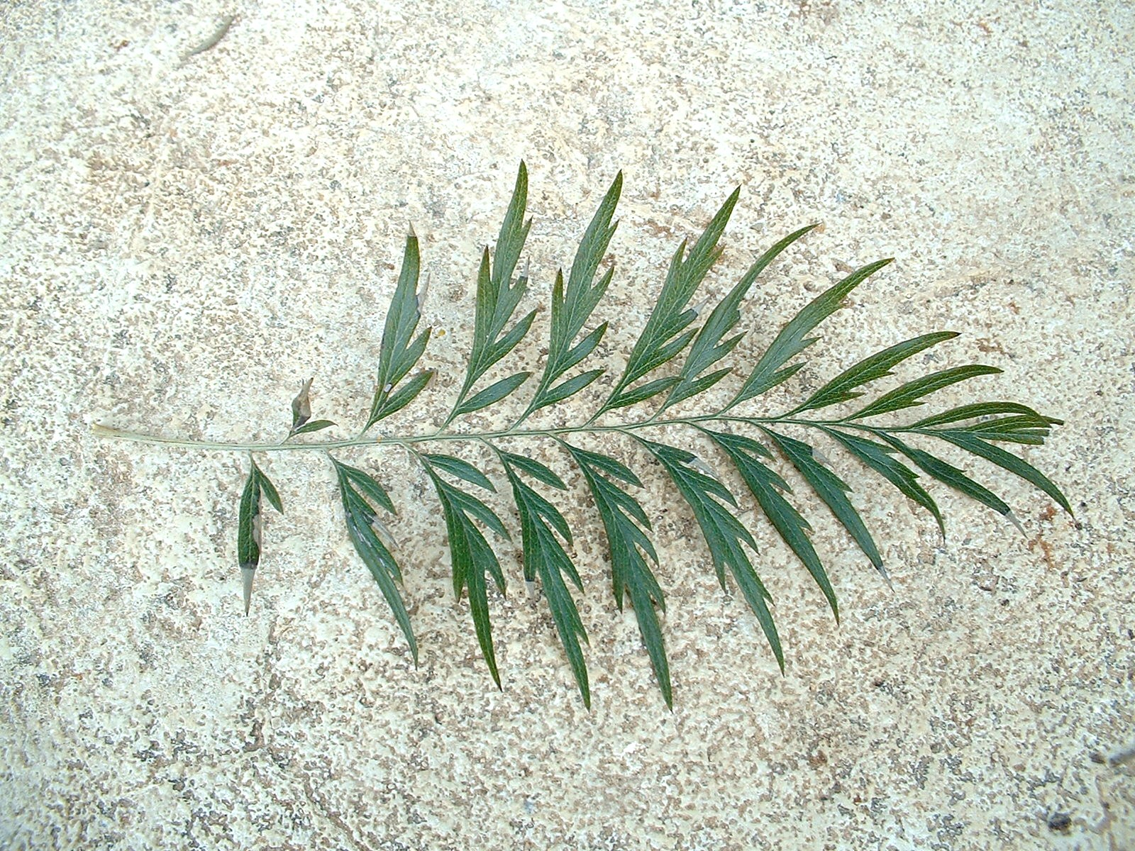 Leaves and trunk of Grevillea robusta. Photographed in Karkur, Israel; Dec. 30, 2005; Fuji FinePix 2650 camera.